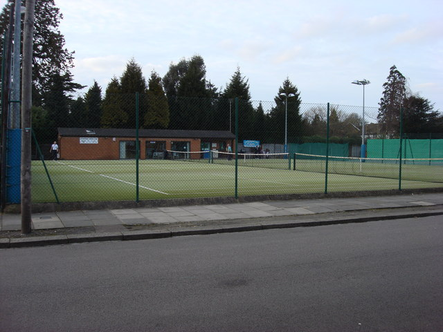 Tennis courts of the Cassiobury Tennis Club in Cassiobury, Watford, UK. Just beyond the line of tall trees at the back of the courts is the former site of Cassiobury House which was demolished in 1927; the site is now occupied by suburban houses.